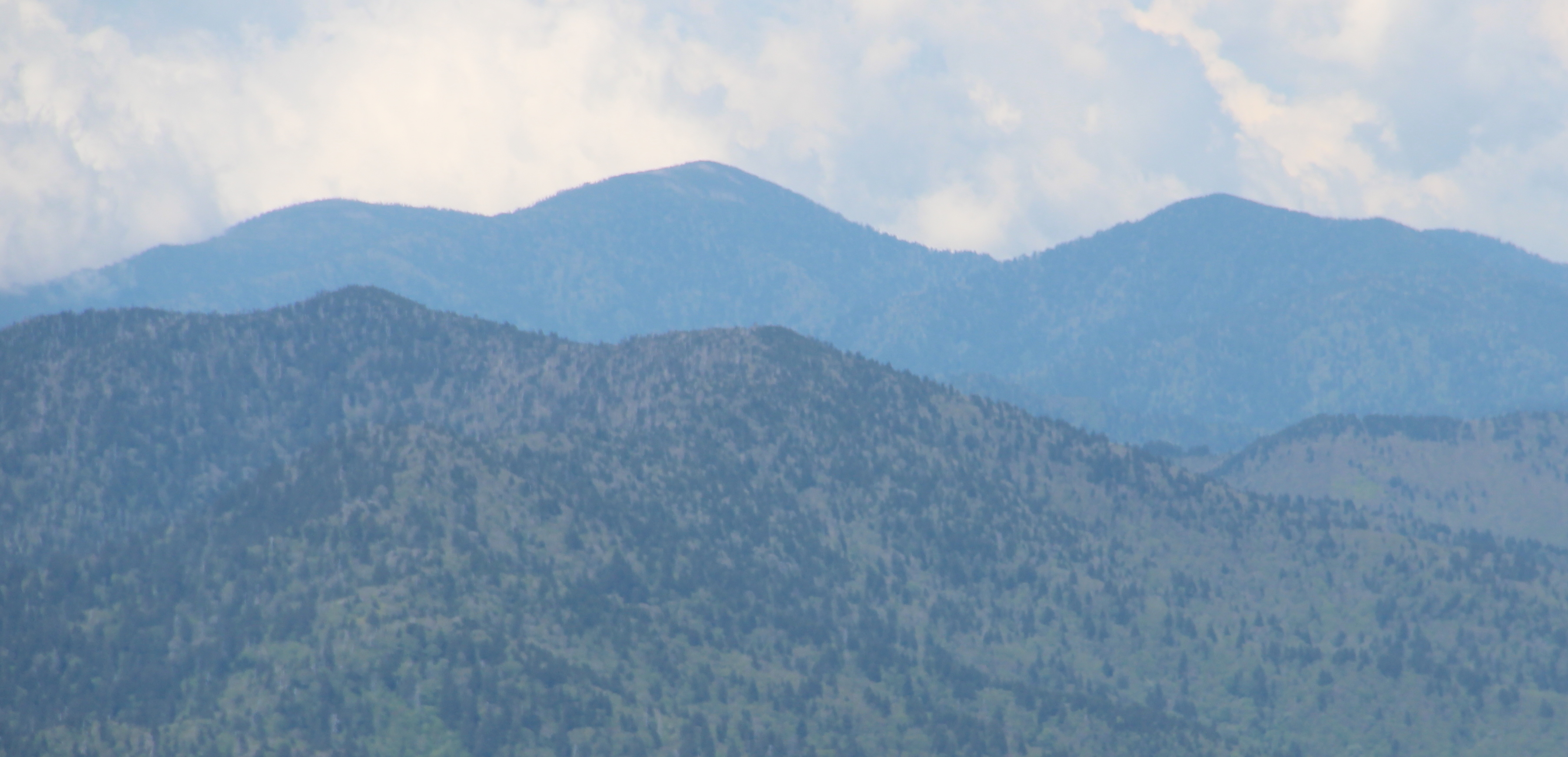 Mount Guyot and Mount Chapman viewed from Clingmans Dome